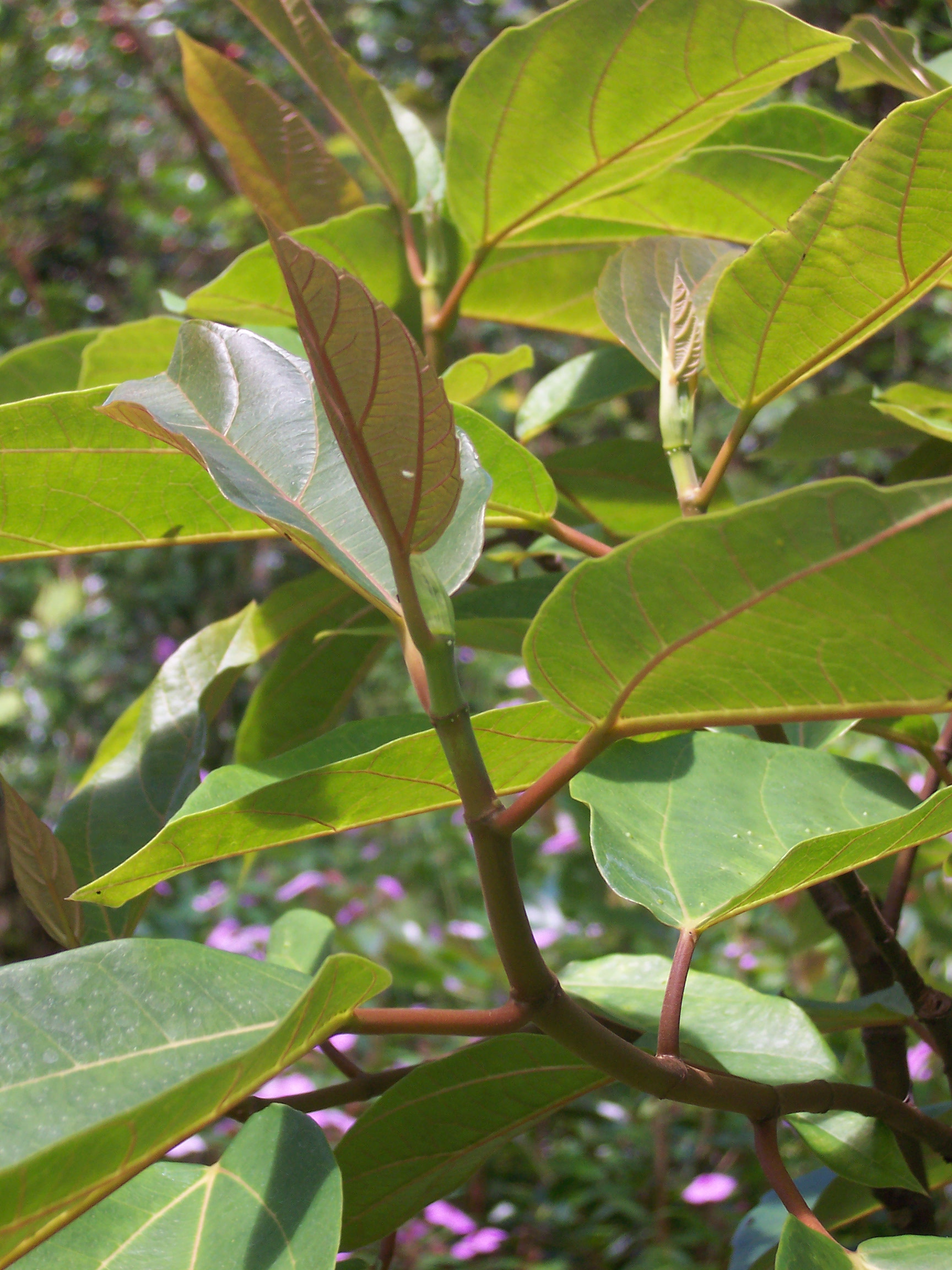 Ficus mauritiana (leaves on a young plant) (Réunion island)